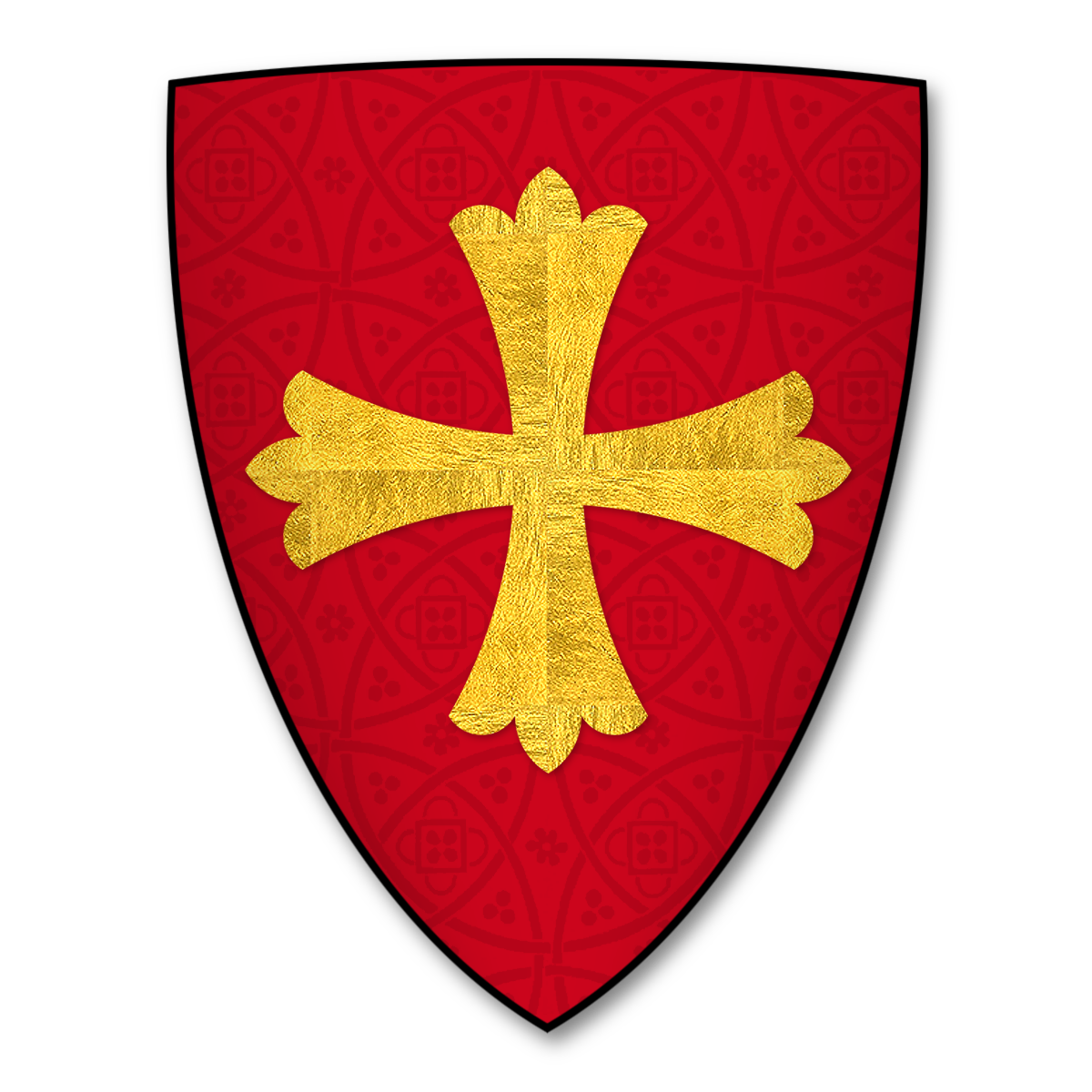 Coat of arms of William le Latimer, as blazoned in the Caerlaverock Poem (K-070: "Guilleme le Latimier") "Ki la crois patee de or mier Portoit en rouge bien pourtraite." Arms: Gules, a cross patonce Or. (Note: the term "patee" in this stanza should not be interpretted as paty, or pattée, but rather as patonce. See H.S. London, 'Paty and Formy', Coat of Arms, iii (1955) pp: 285-6.)